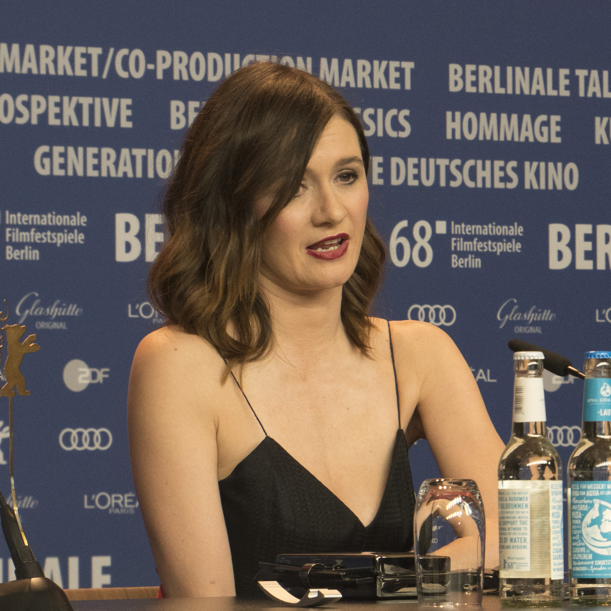 Emily Mortimer at the press conference of The Bookshop at Berlinale 2018